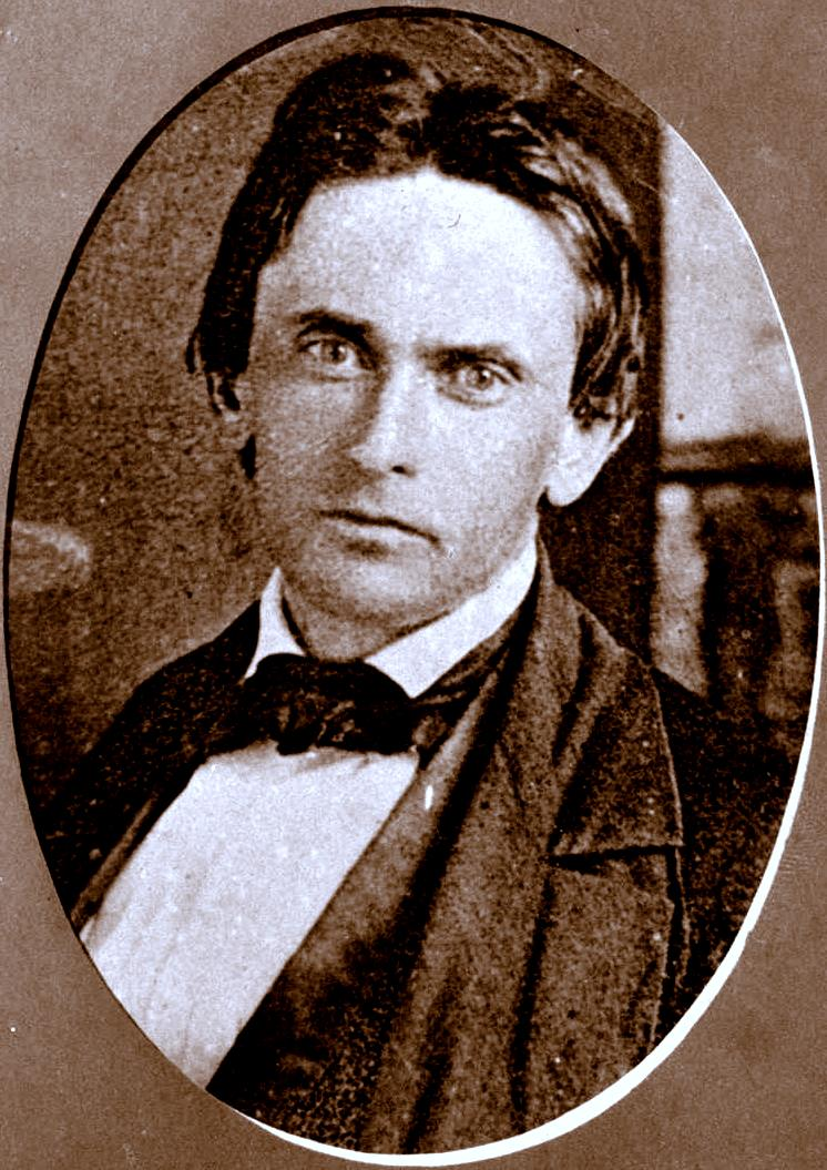 Benjamin Ignatius Hayes (1815–1877) — in 1849. Lawyer, first Judge of the Southern District of California from 1852-1864. Writer and collector of historical information about Early California.